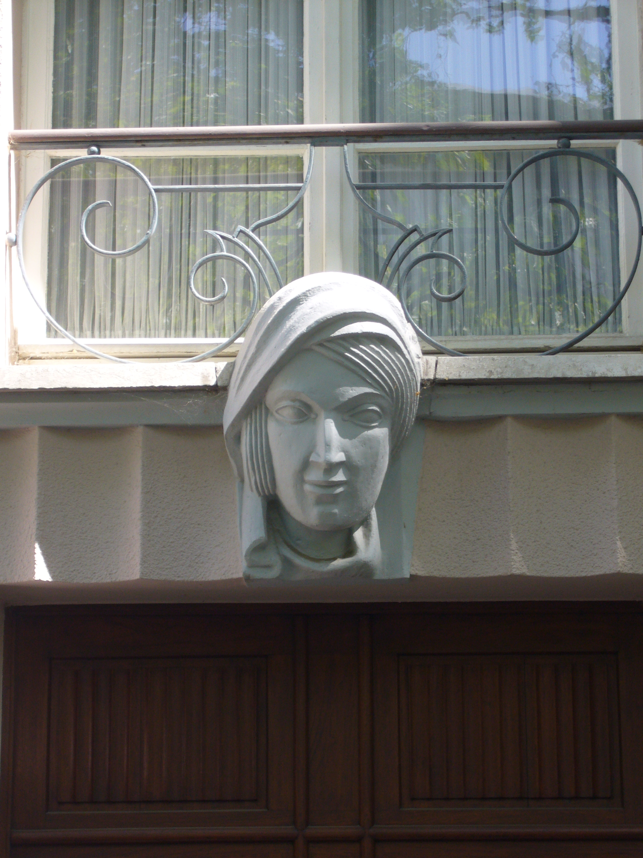 Head of a woman at the house in Otto-Beck-Straße 40 in 68165 Mannheim from Otto Schließler (1924).